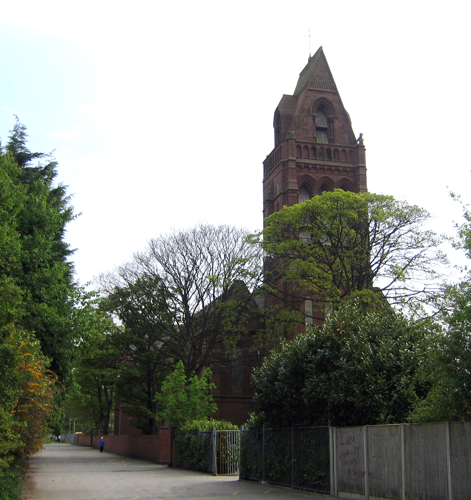 Roman Catholic church of St Michael, St Michael's Road, Widnes, Cheshire, seen from the west